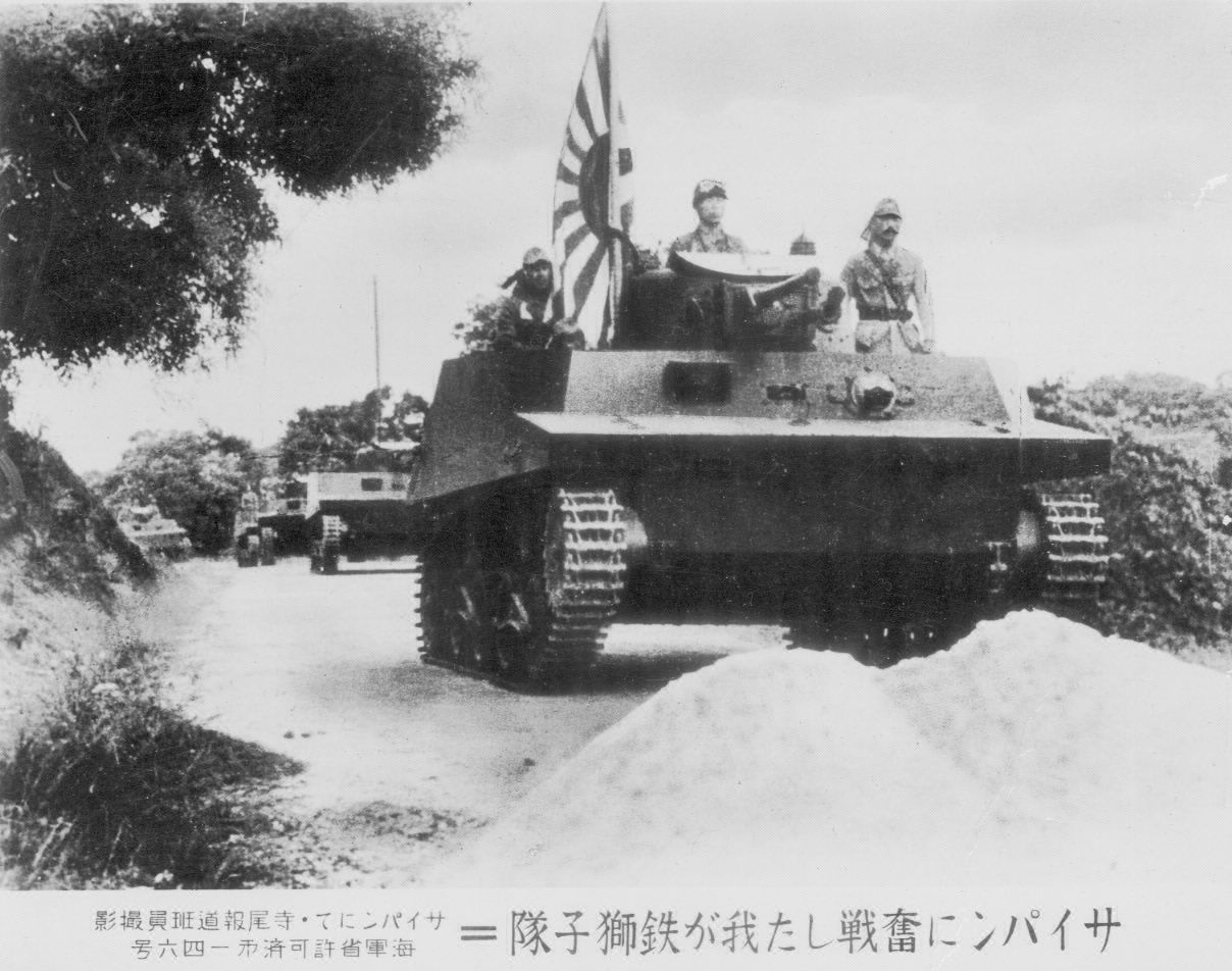 Type 2 Ka-Mi amphibious tanks of the Yokosuka 1st Special Naval Landing Forces (SNLF) on Saipan.